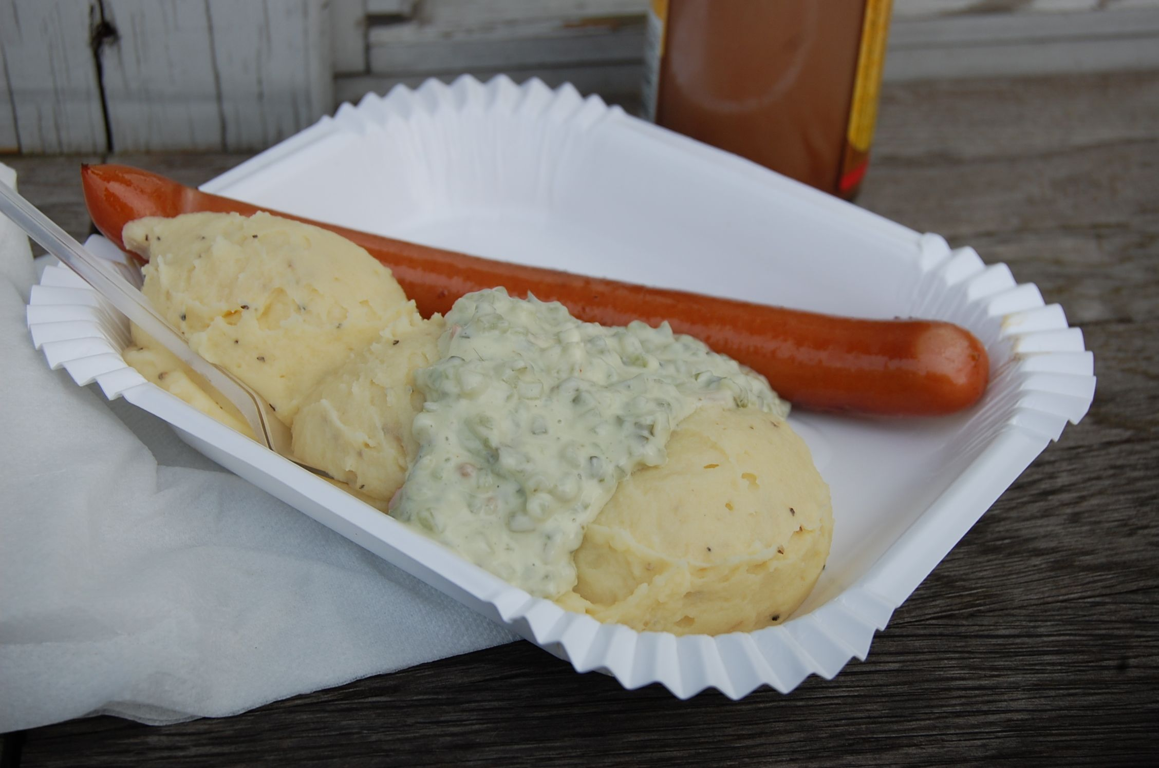 pickled cucumber-mayo